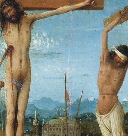 Detail showing Christ dying on Golgotha.